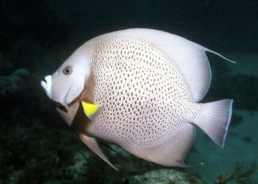 Grey Angel Fish on Outer Cobblers Reef